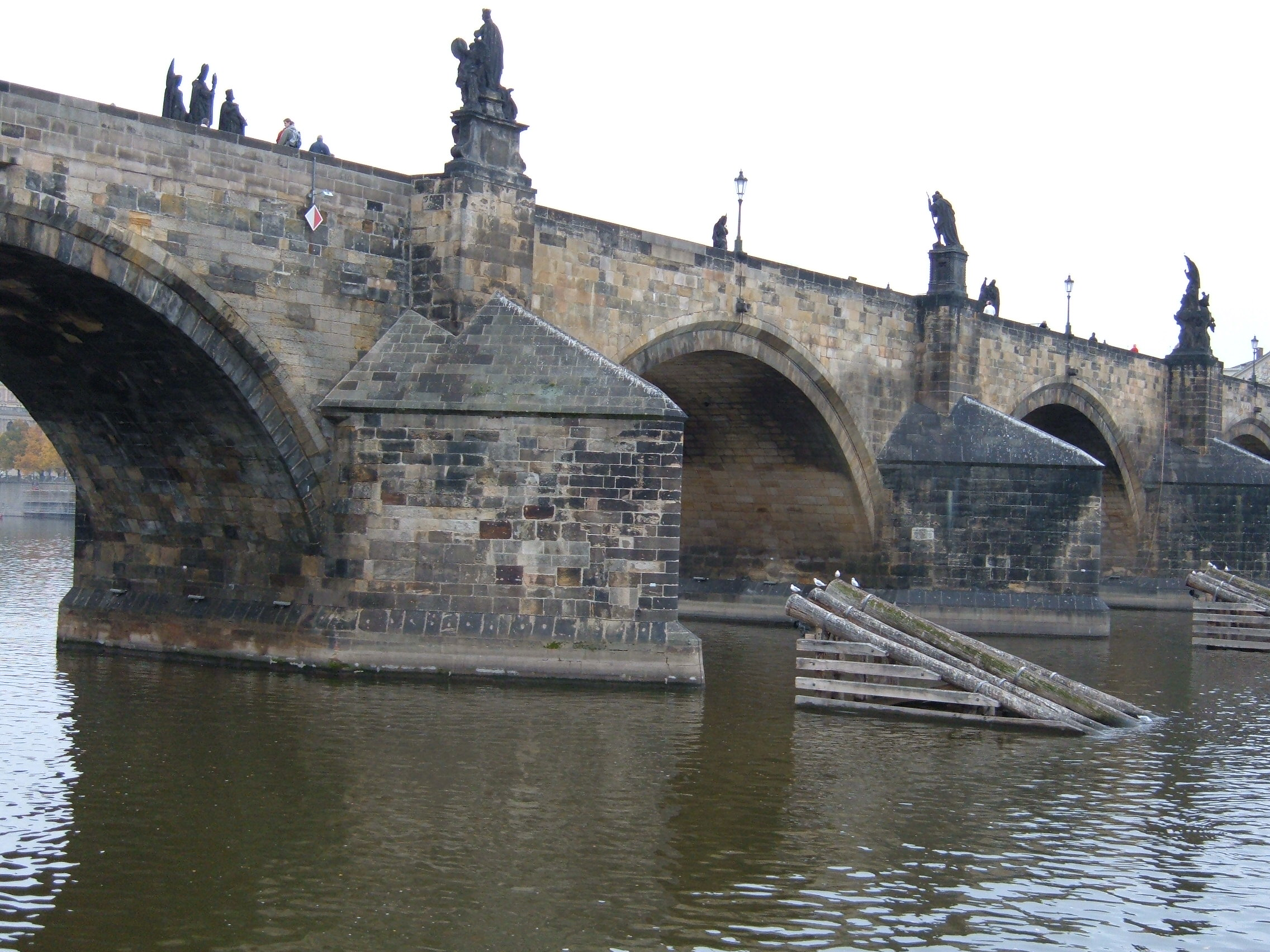 Arches of the Charles Bridge as seen from the Vltava River, Prague, Czech Republic.